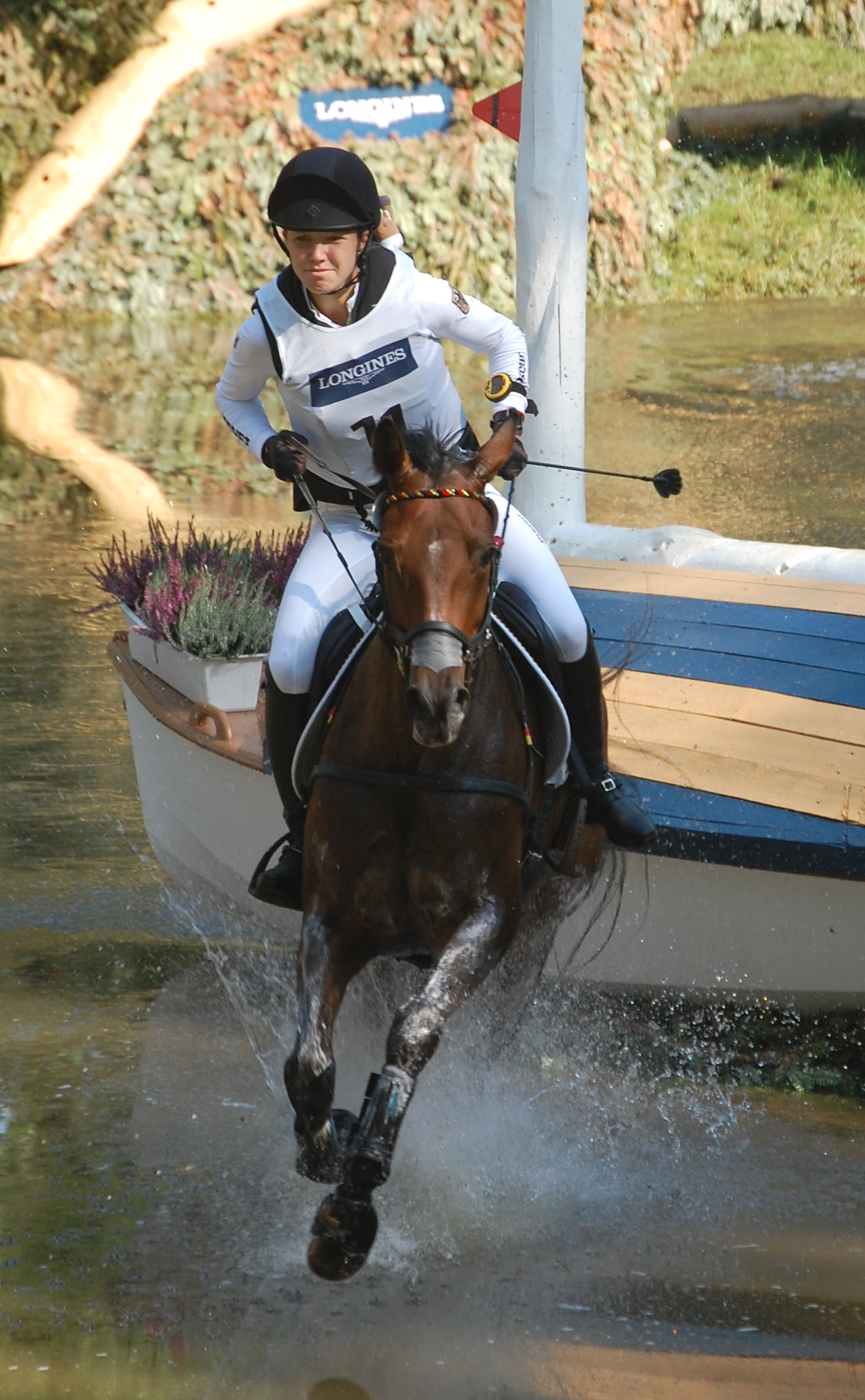 German rider Anna-Katharina Vogel and DSP Quintana P, fence 5 "Longines water" (cross-country phase), 2019 European Eventing Championship, Luhmühlen